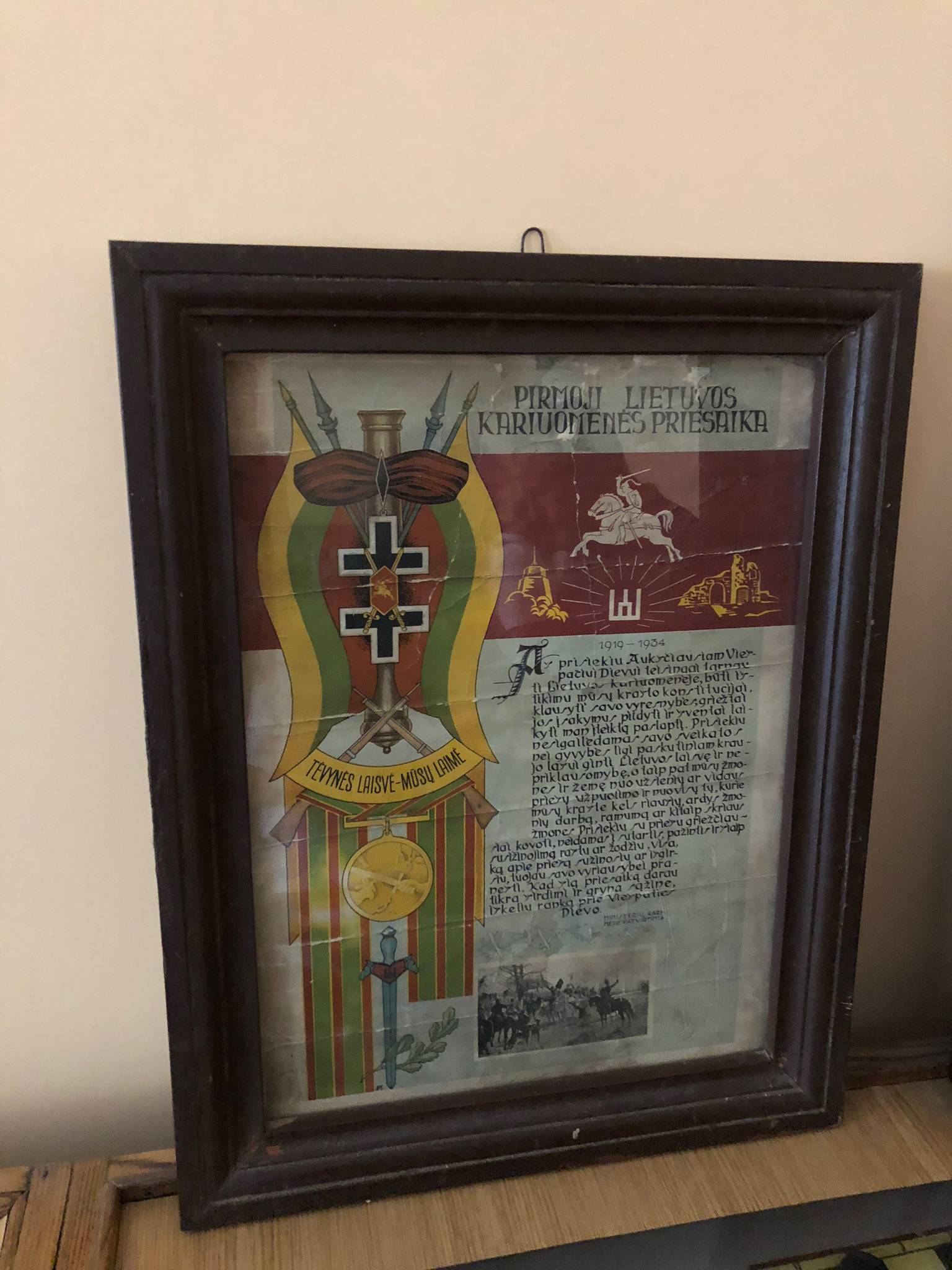 The first oath of the Lithuanian Army in the Editorial office of Kardas in the Kaunas Garrison Officers' Club Building.